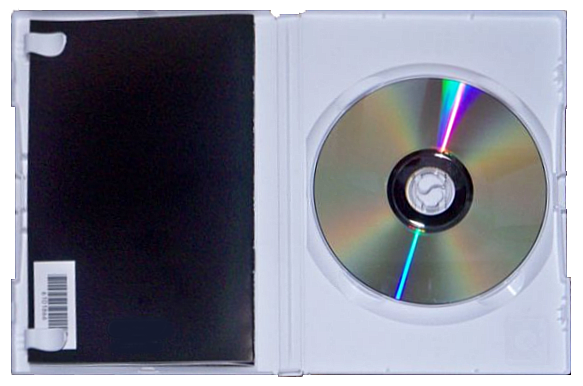 Wii Optical Disc in (older) keep case